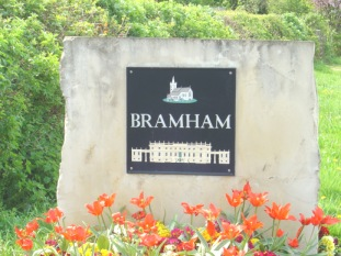 Bramham Road Sign - entering Bramham village from Tadcaster near New York Farm.